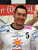 Hungarian Handball player Timuzsin Schuch 2013